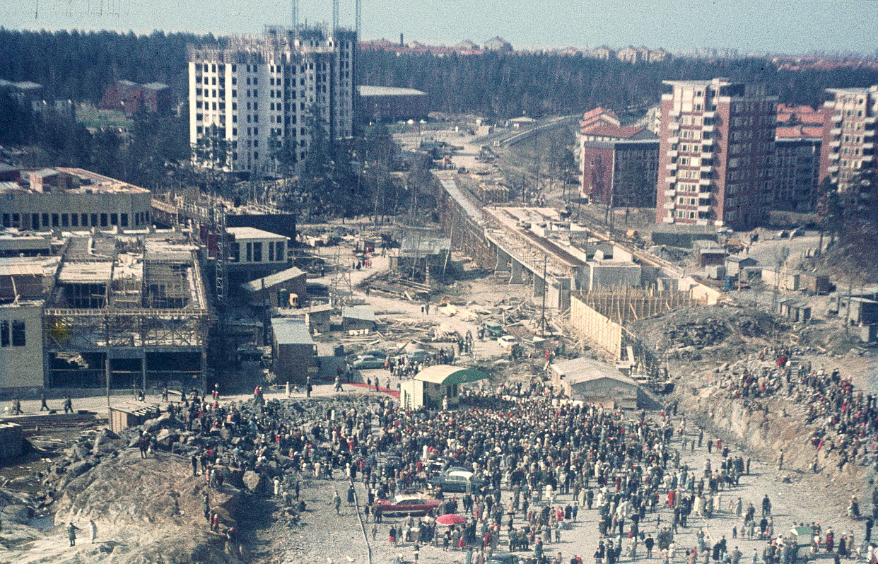 Utsikt från höghus, Grumsgatan 2 över Munkforsplan och bygget av Farsta Centrum och tunnelbanestationen. Lions har fest i Farsta. 1960-1960FOTOGRAF: Linnerheim, Rune (Byggkonsult).BILDNUMMER: Dia 4517Stadsmuseet i Stockholm